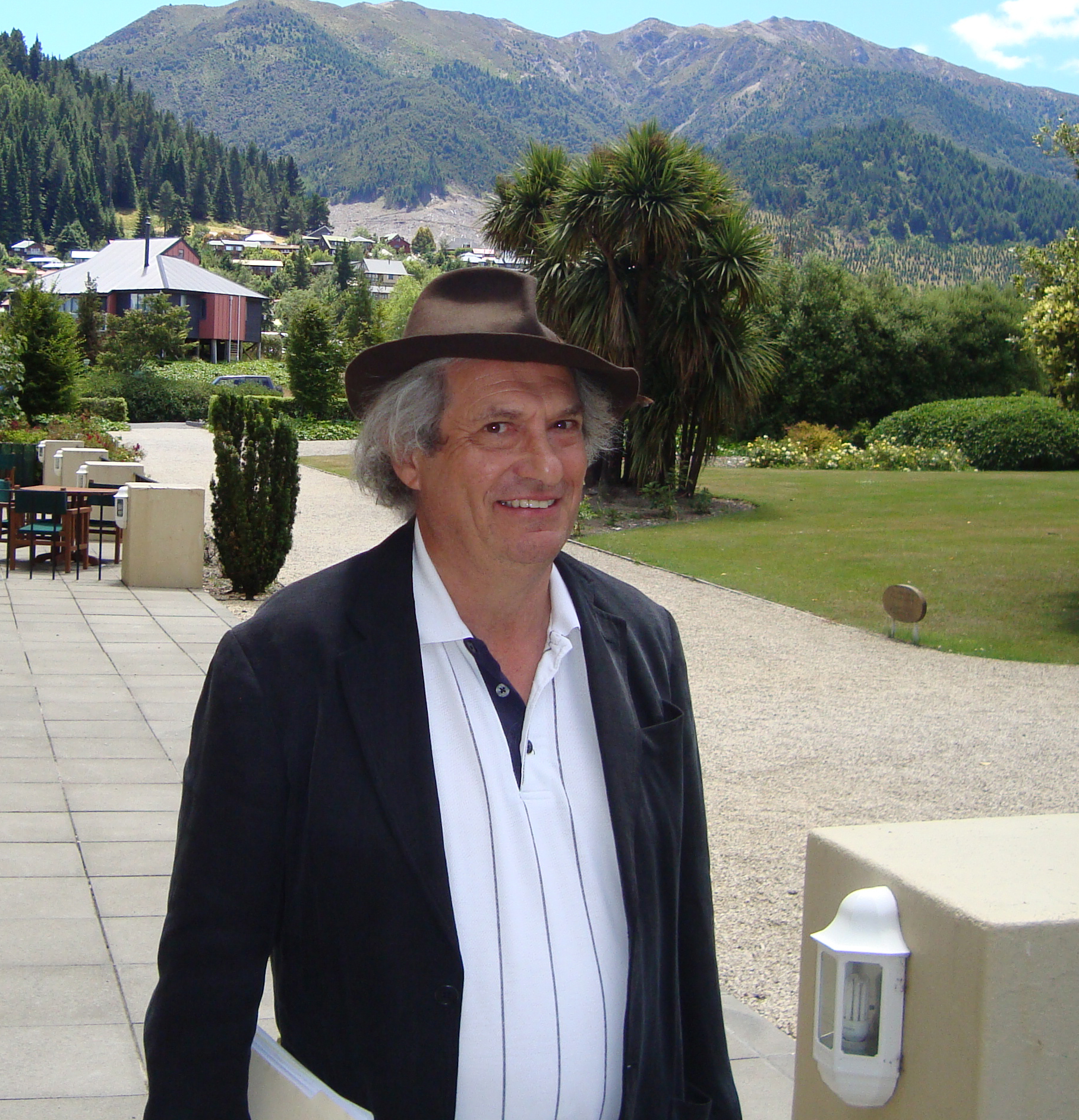 Mary V. Sunseri Professor of Statistics and Mathematics at Stanford University Persi Warren Diaconis during the 2010 NZMRI Summer Workshop on Groups, Representations and Number Theory in Hanmer Springs, New Zealand.